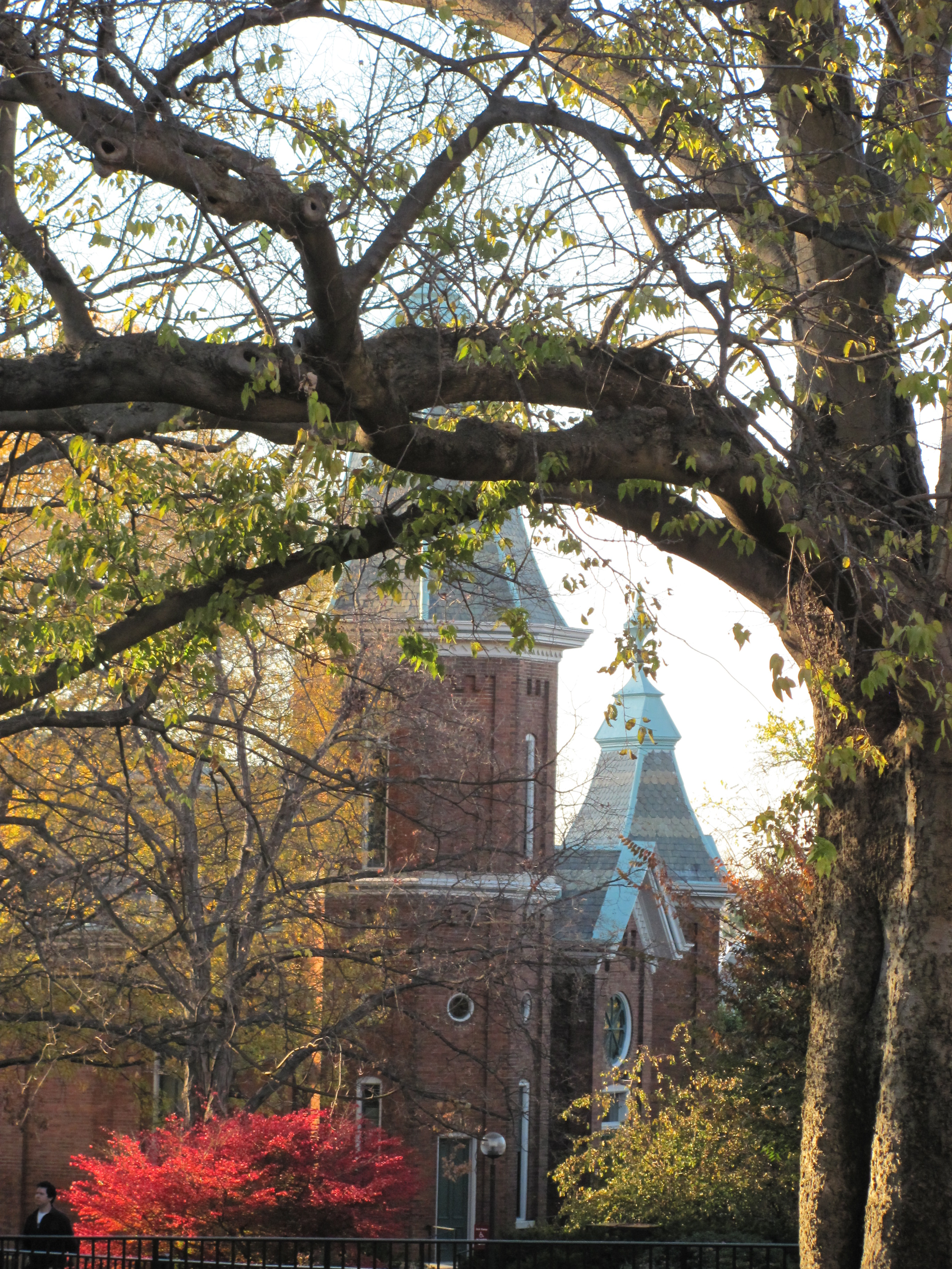 Admissions